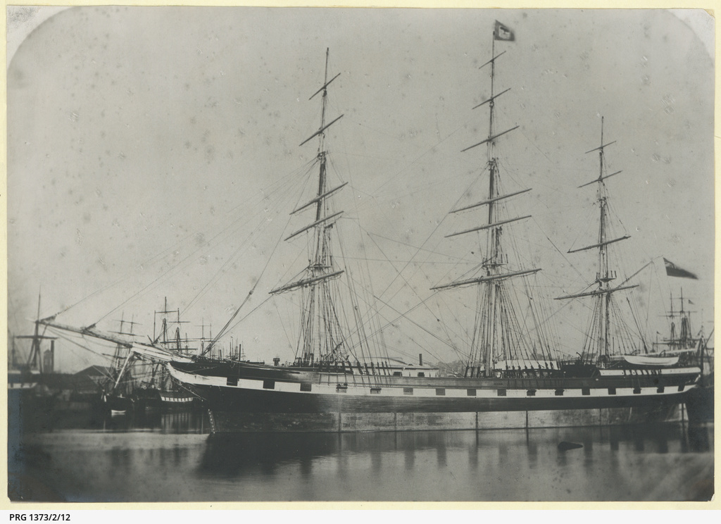 Darra anchored in an unidentified port; owned by the Orient Line.